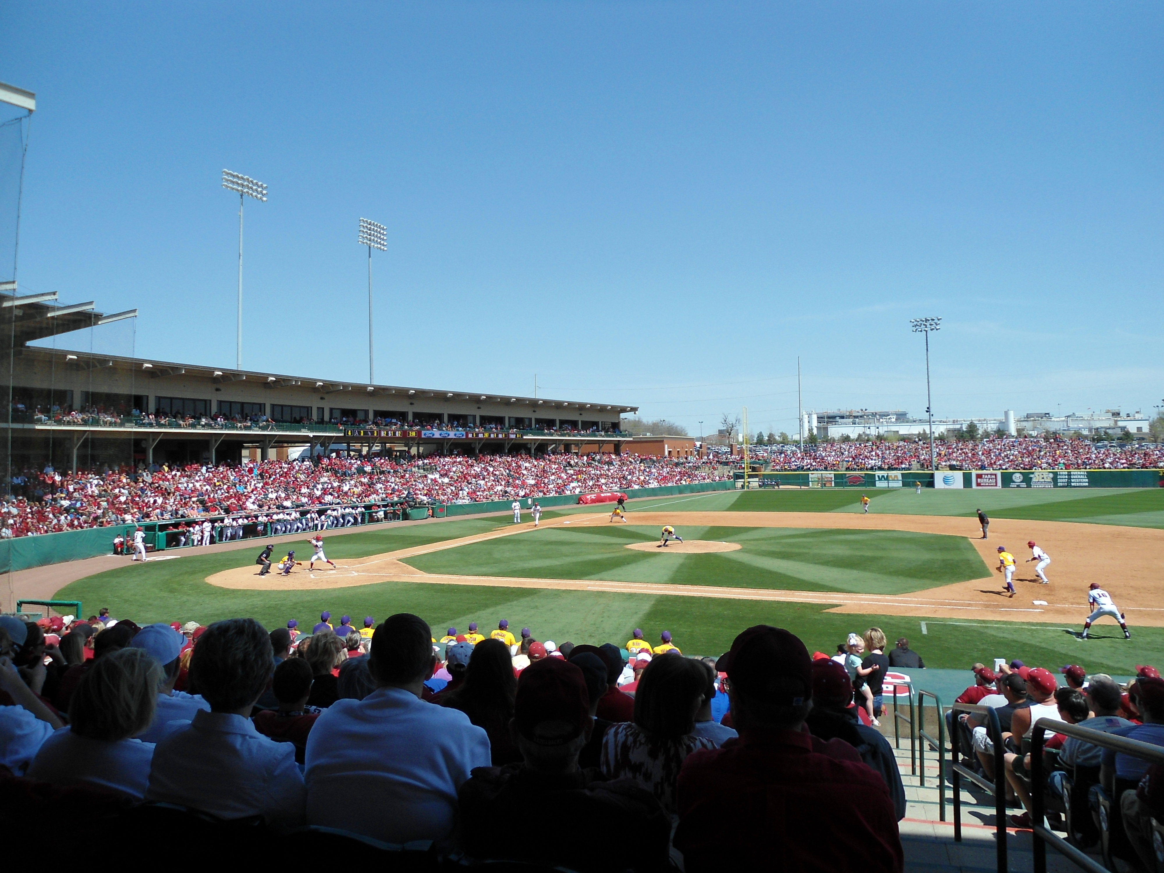 The infield at Baum Stadium, Fayetteville Arkansas. Arkansas vs LSU